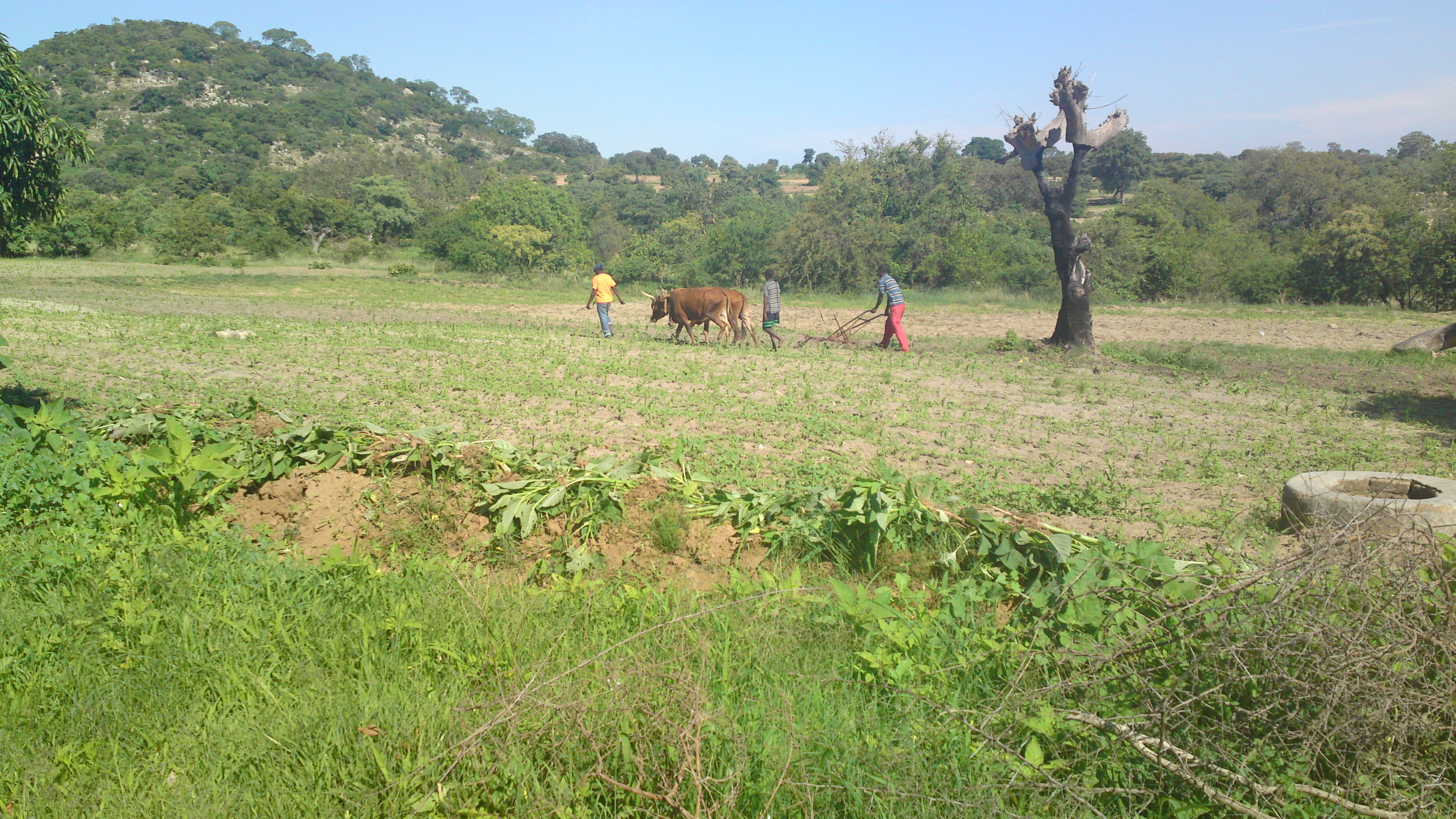 A photo taken in December 24 2010 of villagers working on the land in Bedza Village, Buhera, Zimbabwe